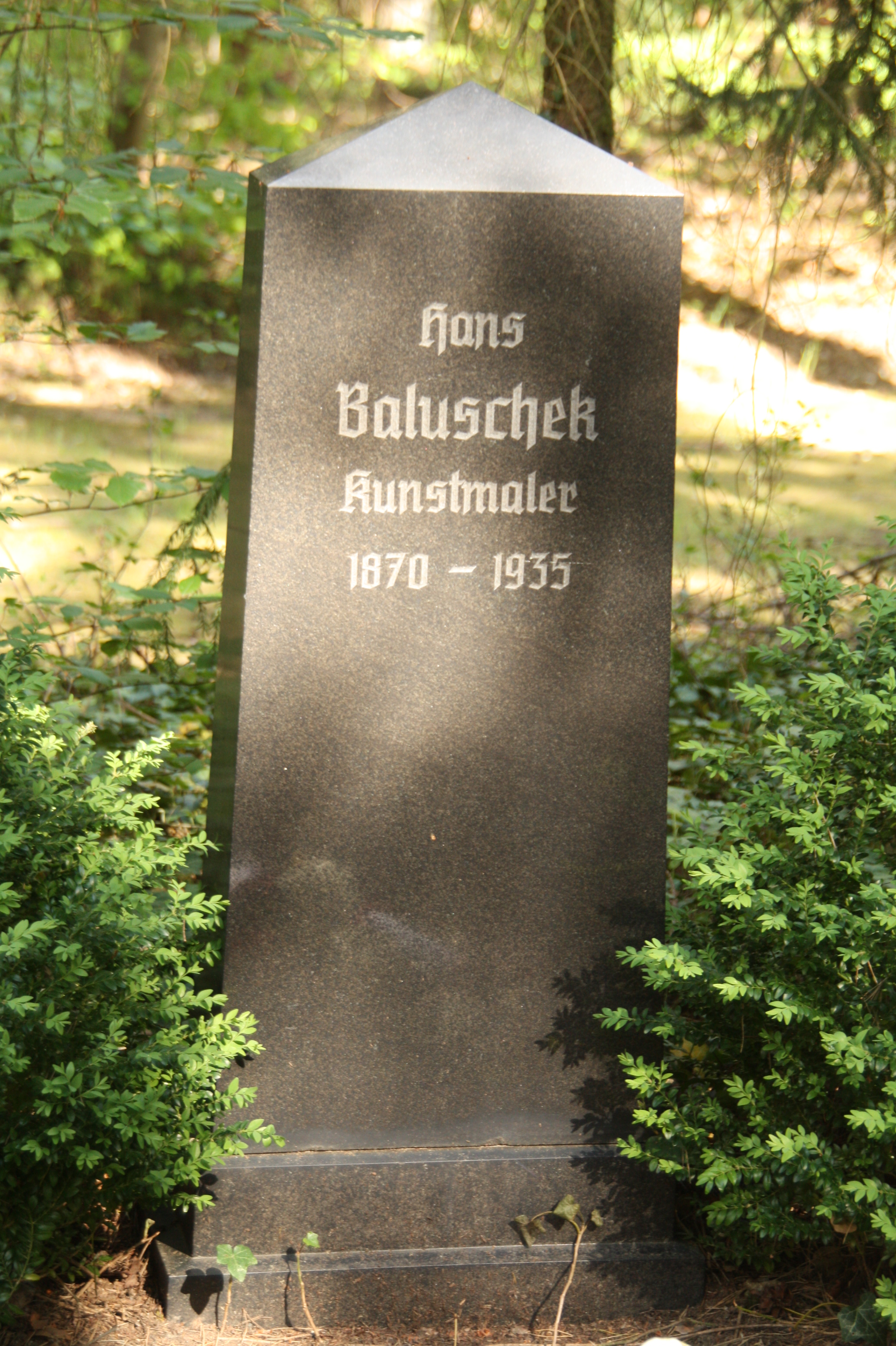 Grave of german painter Hans Baluschek at Wilmersdorfer Waldfriedhof in Stahnsdorf near Berlin